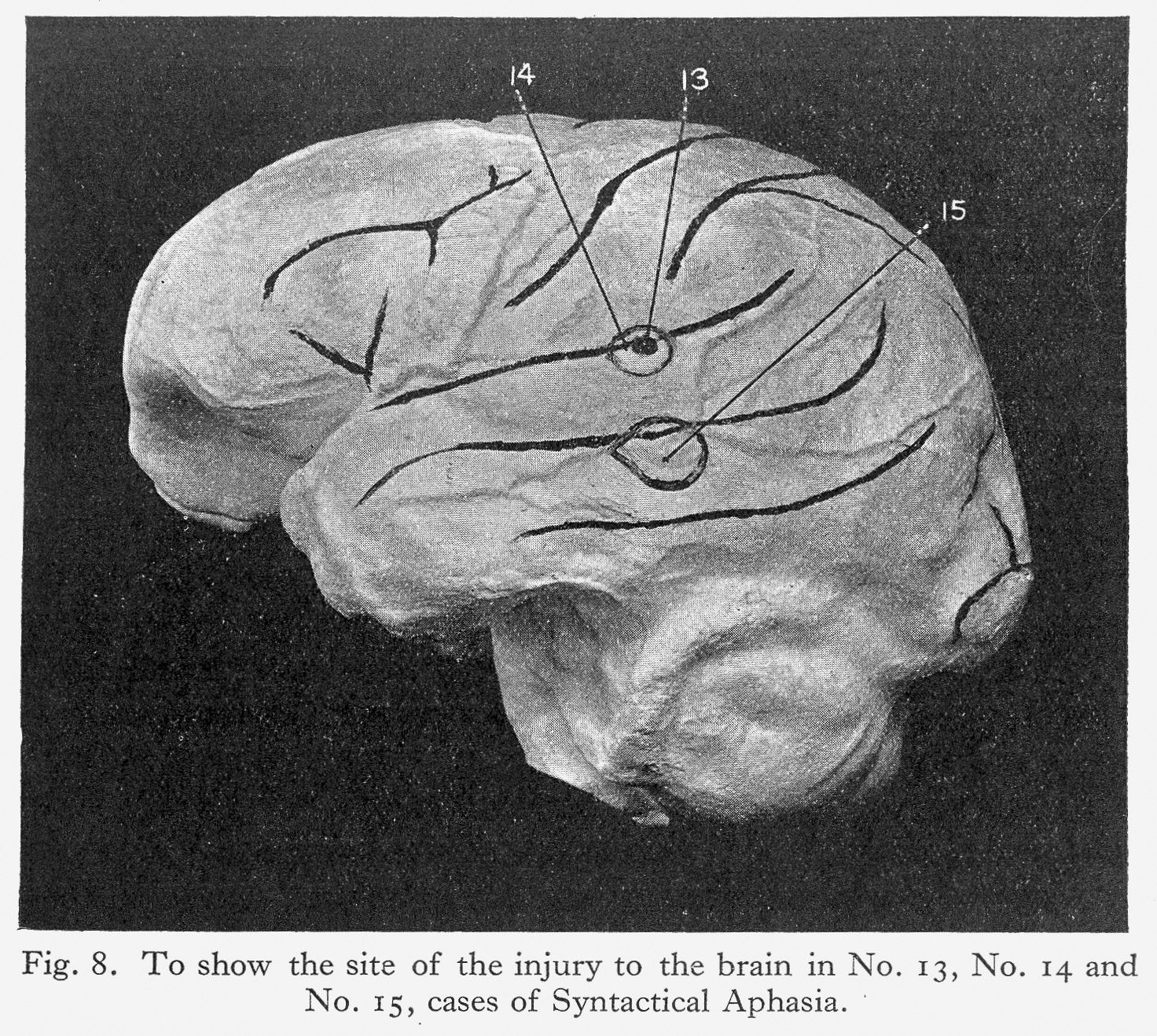 Model of the brain with syntactical aphasia. General Collections Keywords: Henry Head